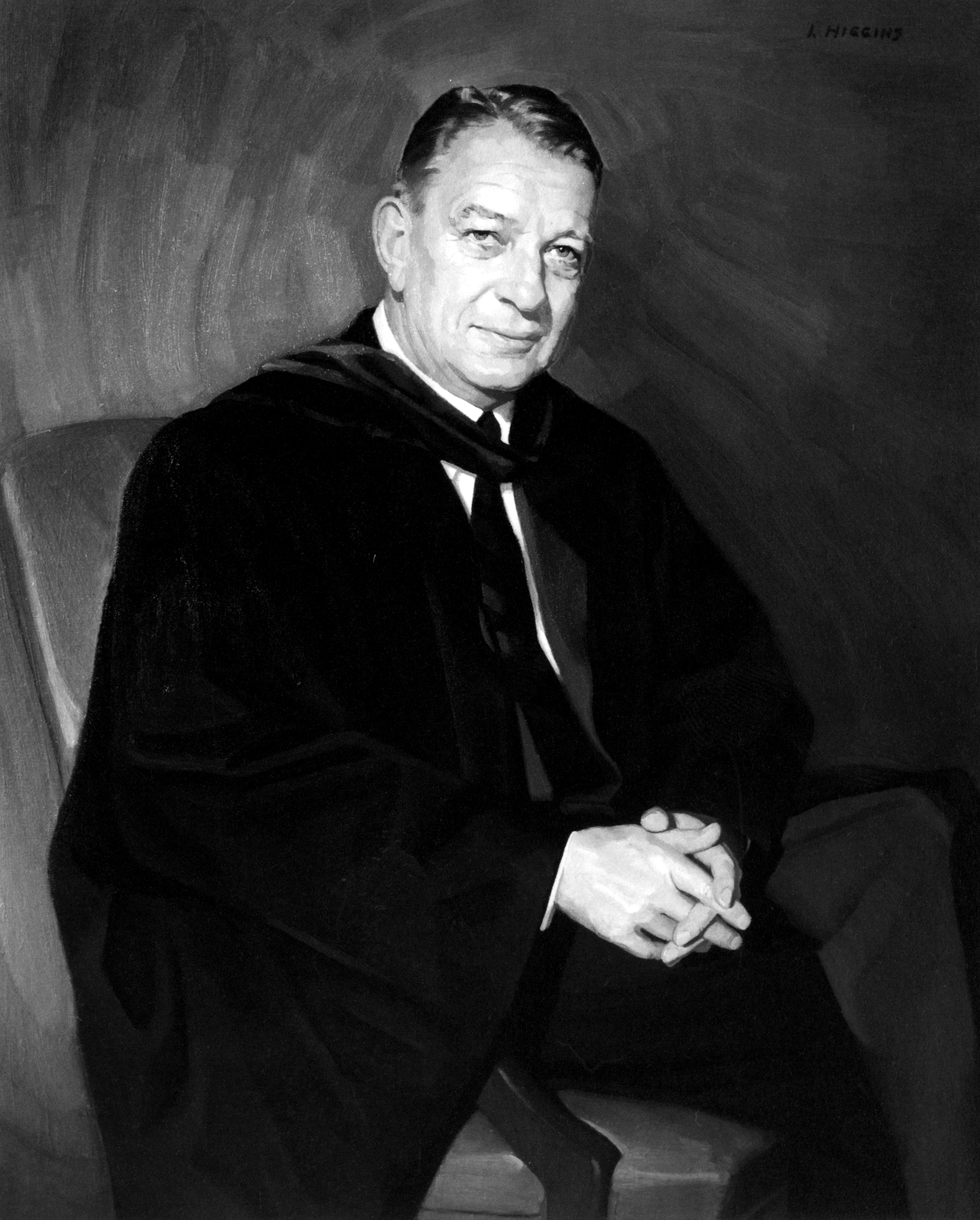 Hardy Cross Dillard's Portrait Dedicated at Law Day, 1964